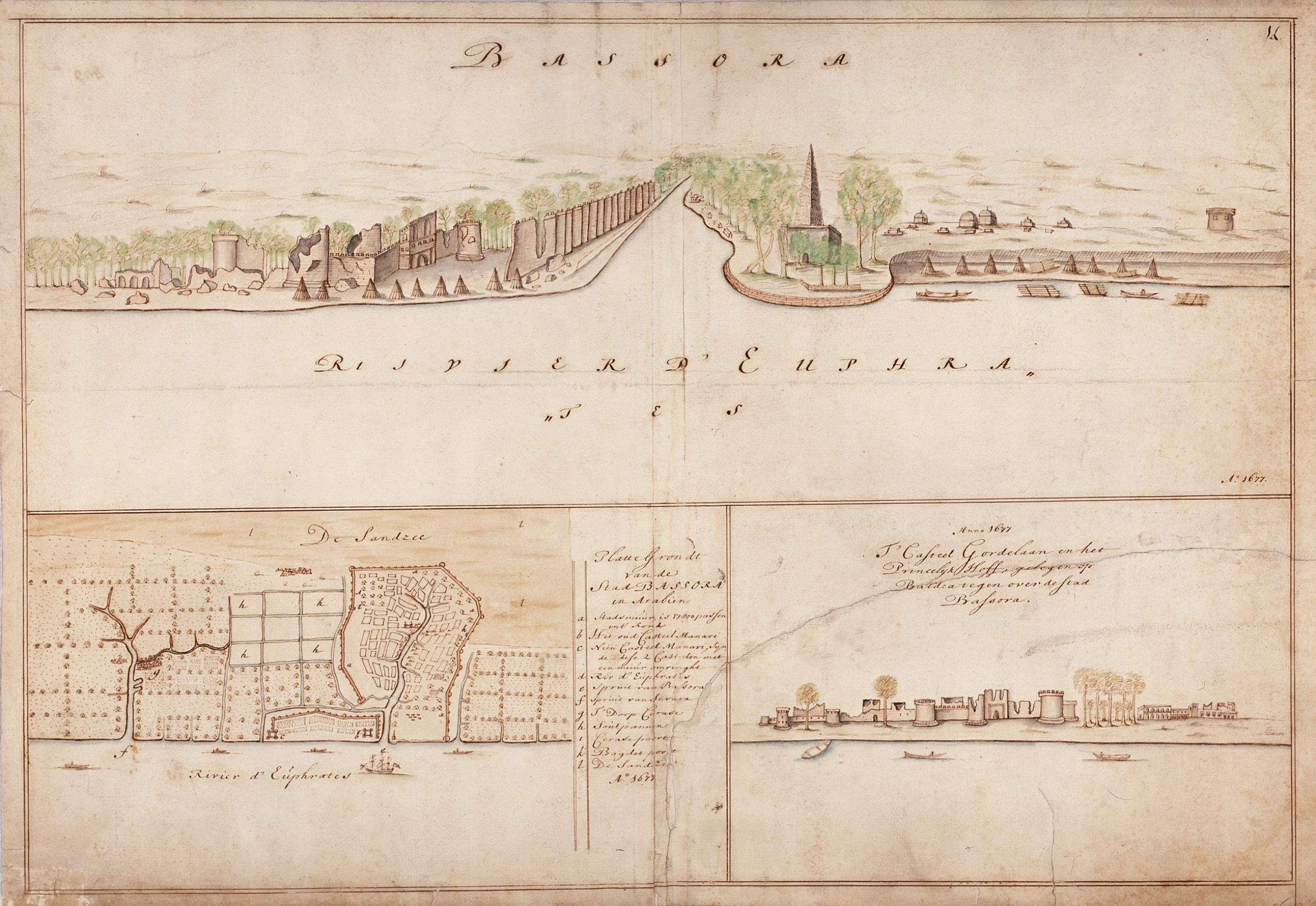 Title in the Leupe catalogue (National Archives): Gezigt op Bassora. Dated around 1695 after the situation in 1677. A paper strip runs round all four sides of the chart by way of reinforcement, the dimensions of the actual map are 48.5 by 70.5 cm. Numbered top right: 14. Notes on reverse: 499a.